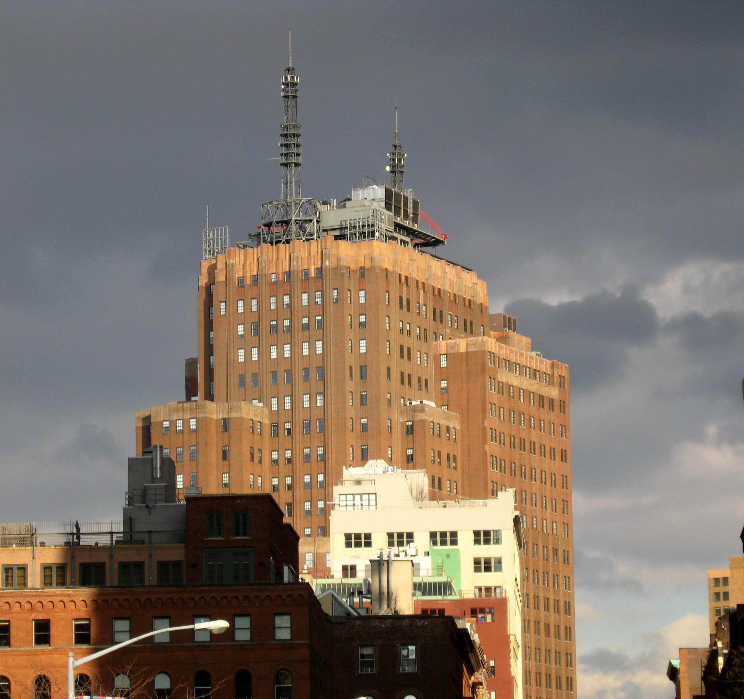 AT&T Communications building at 32 Avenue of Americas as seen from west end of North Moore Street on the Hudson during a break in heavy clouds on an early spring afternoon